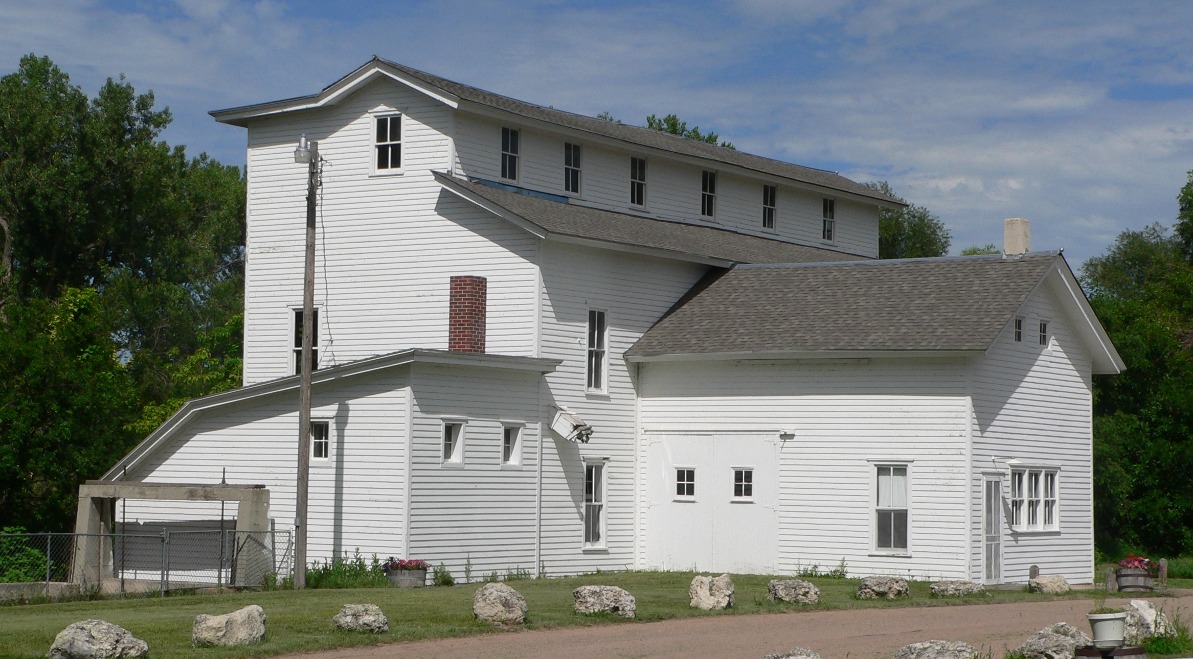 Champion Mill in Champion, Nebraska; seen from the southwest. The mill was built in 1892, and is listed in the National Register of Historic Places. It is presently operated as a museum.